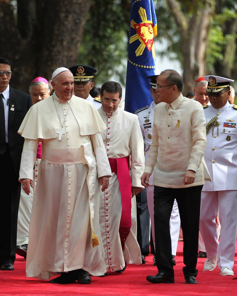 President Benigno S. Aquino III guides His Holiness Pope Francis towards the Palace Main Lobby of the Malacañan Palace during the welcome ceremony for the State Visit and Apostolic Journey to the Republic of the Philippines on Friday (January 16, 2015)